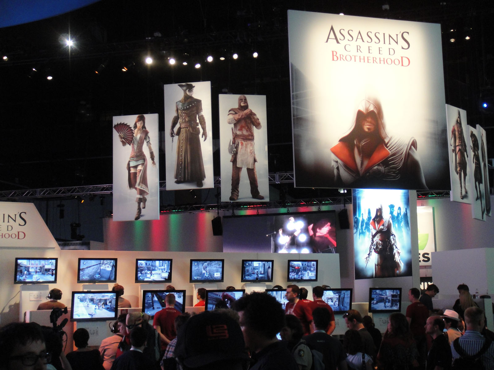 E3 2010 Assassin's Creed Brotherhood at the Ubisoft booth